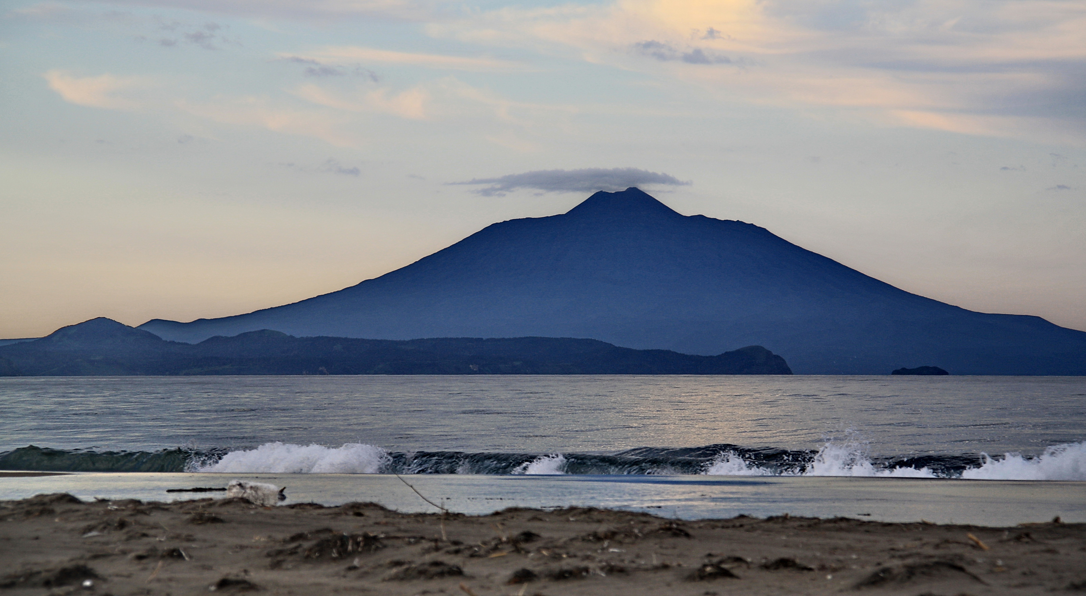 Tyatya volcano on Kunashir island in Russia, viewed from the south-west. Credit: Dmitry Demezhko (distributed via ).